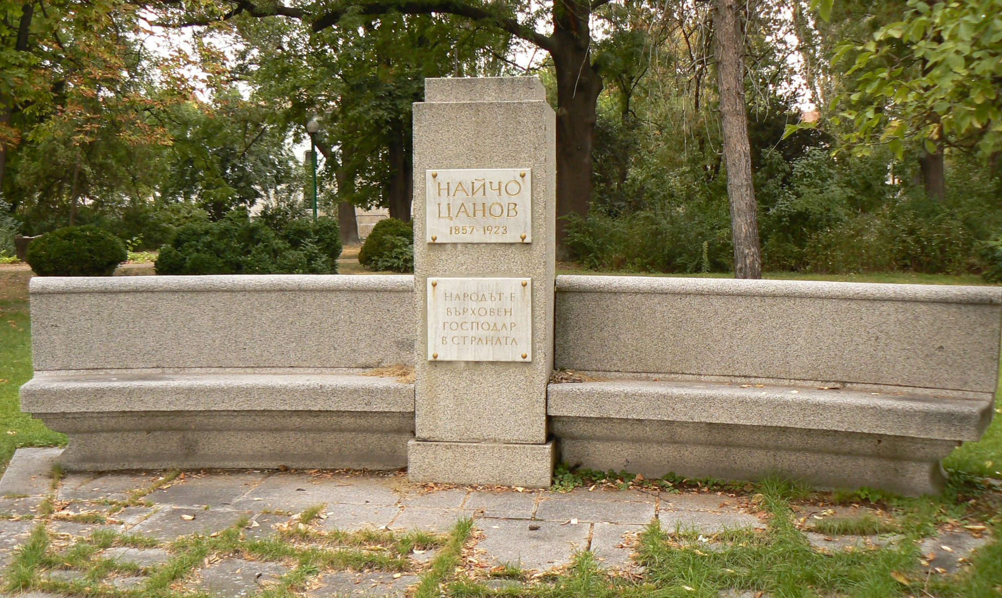 Monument to Bulgarian politician Naycho Tsanov in the Danube city garden of Vidin, Bulgaria. The lower memorial plaque is carved with Tsanov's guiding principle: "The people is the supreme ruler in the country".